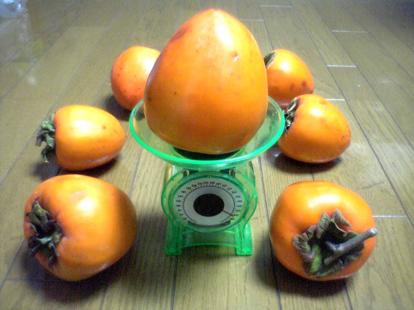 In my kitchen. variety: "Koushu-Hyakume" The astringent persimmon which is a variety for making it a dried persimmon.{a photo is a 430gram(15oz) large-size} Date: Nov. 09, 2005(JST) Vineyard user:OAS